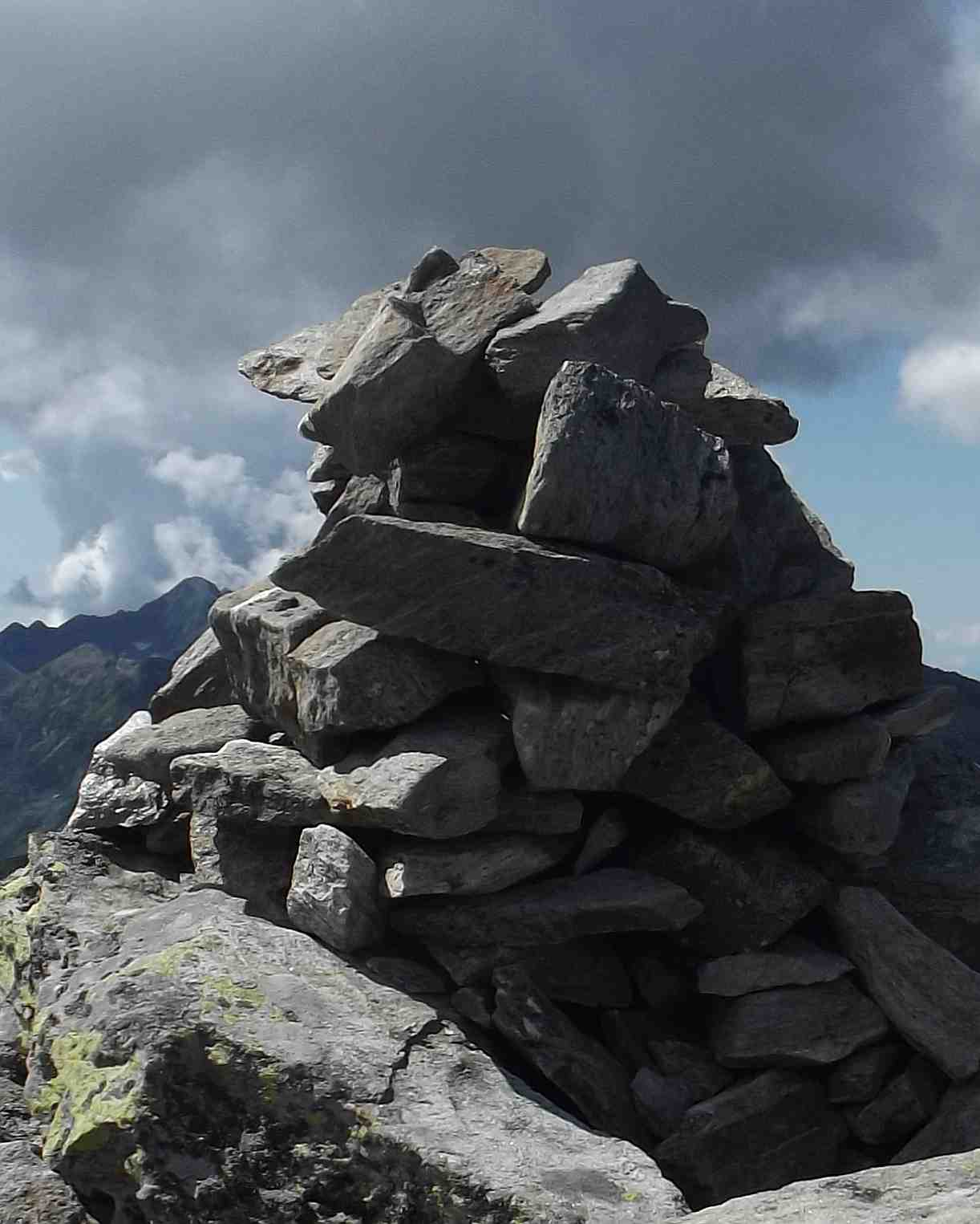 Punta Lazoney (Pennine Alps): the cairn on the summit